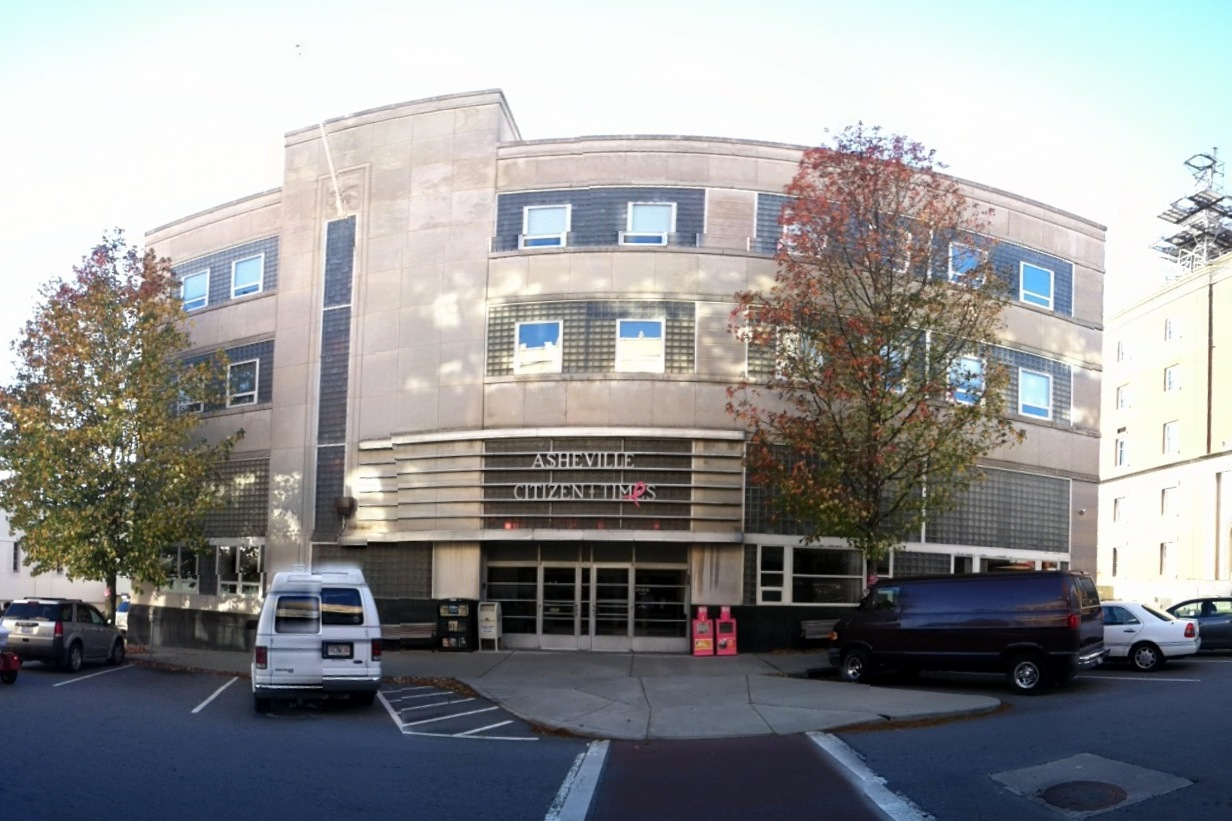 front of the Asheville Citizen building. composed of several smaller pictures.